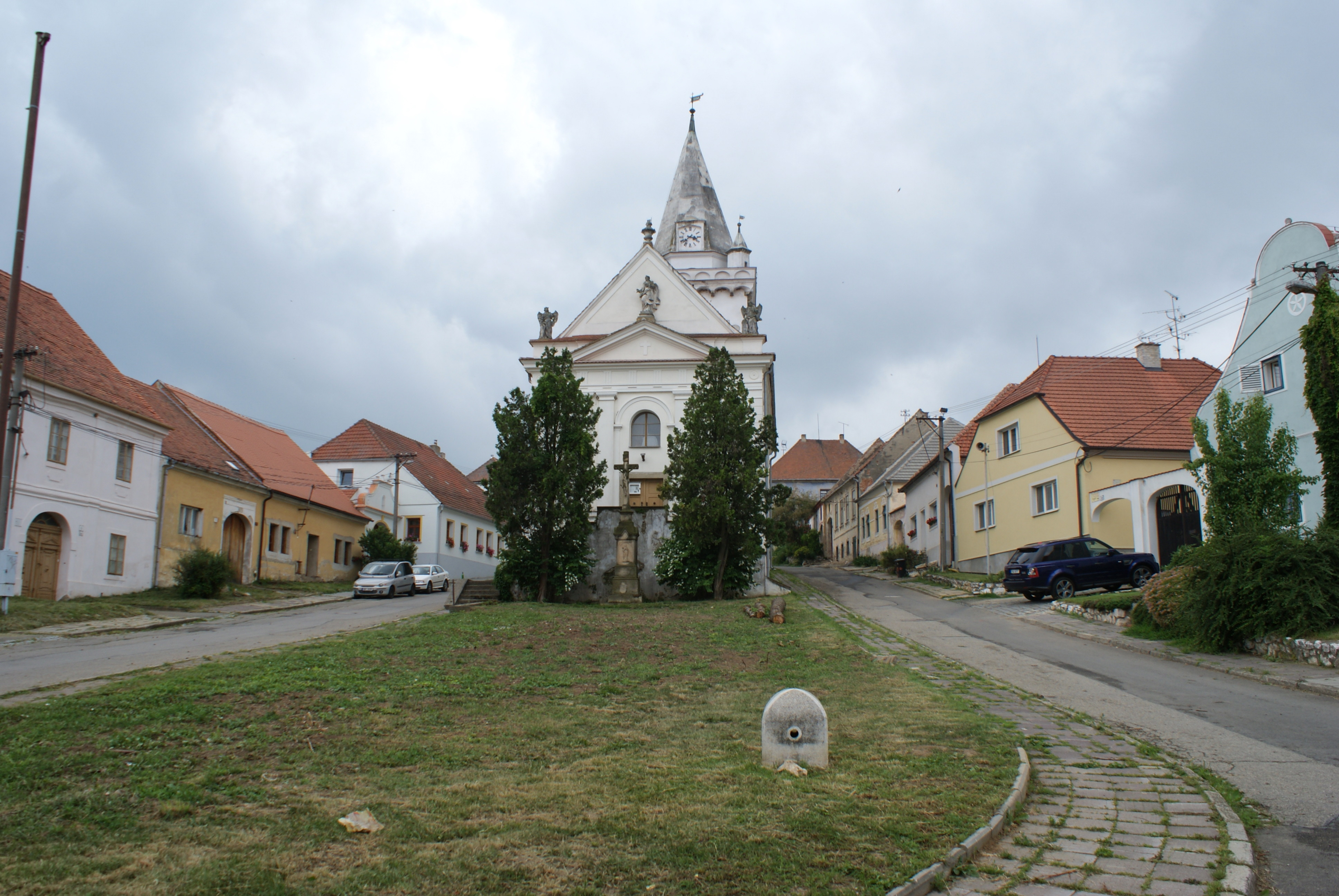 Pavlov, a village in Břeclav District, Czech Republic, church of St Barbara.